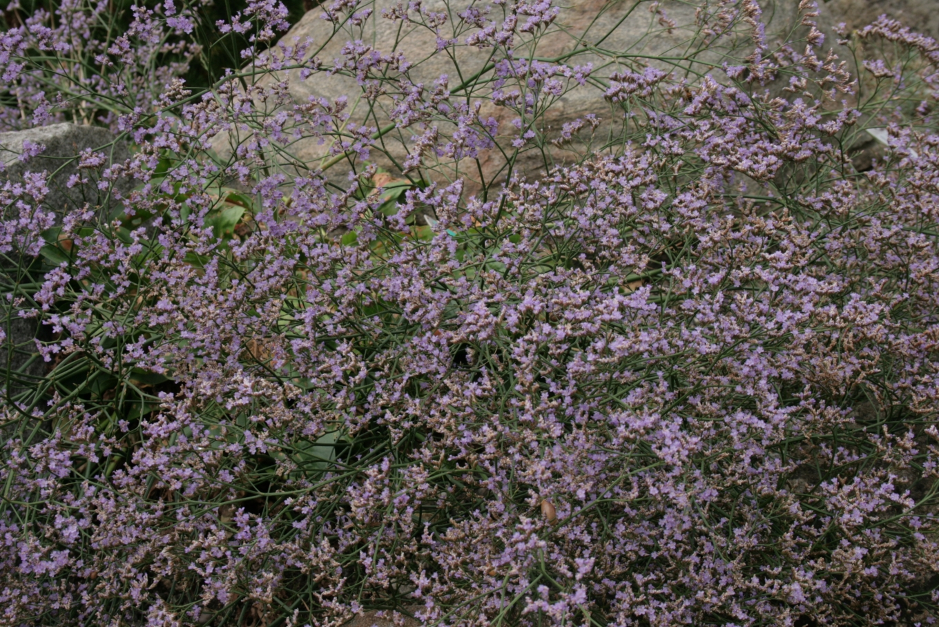 Limonium gmelinii: Habitus (Photo from the Botanical Garden of Aarhus, Denmark)